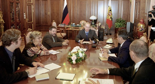 THE KREMLIN, MOSCOW. President Vladimir Putin with Russian journalists.